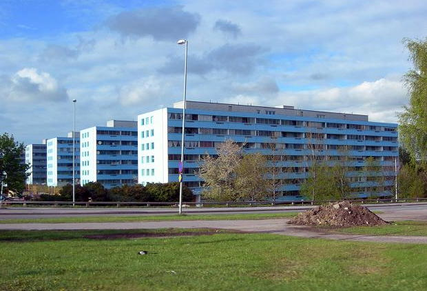 Upplands VÃ¤sby, outside Stockholm. Sweden.